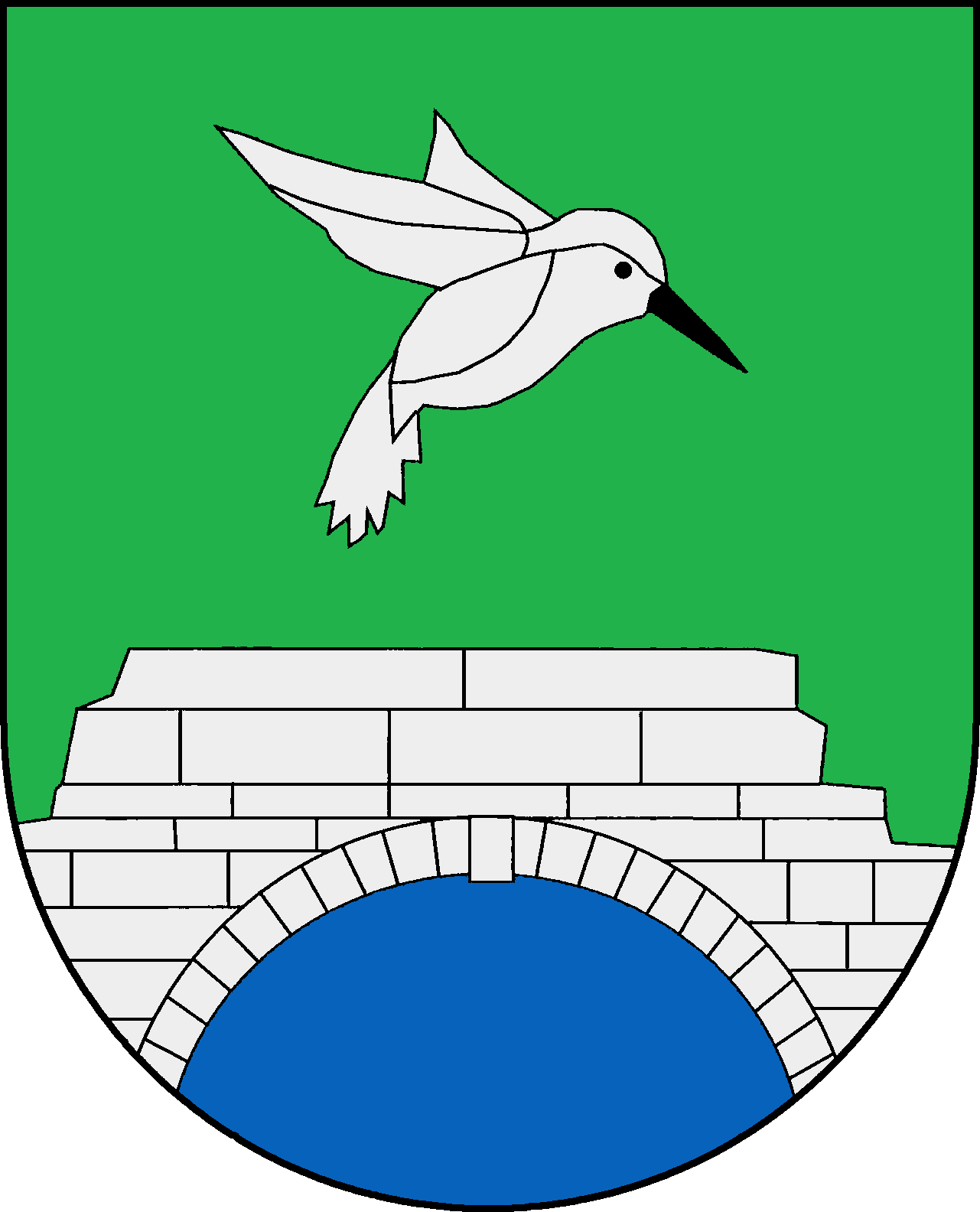 Coat of arms of the municipality Reesdorf in Schleswig-Holstein, Germany.